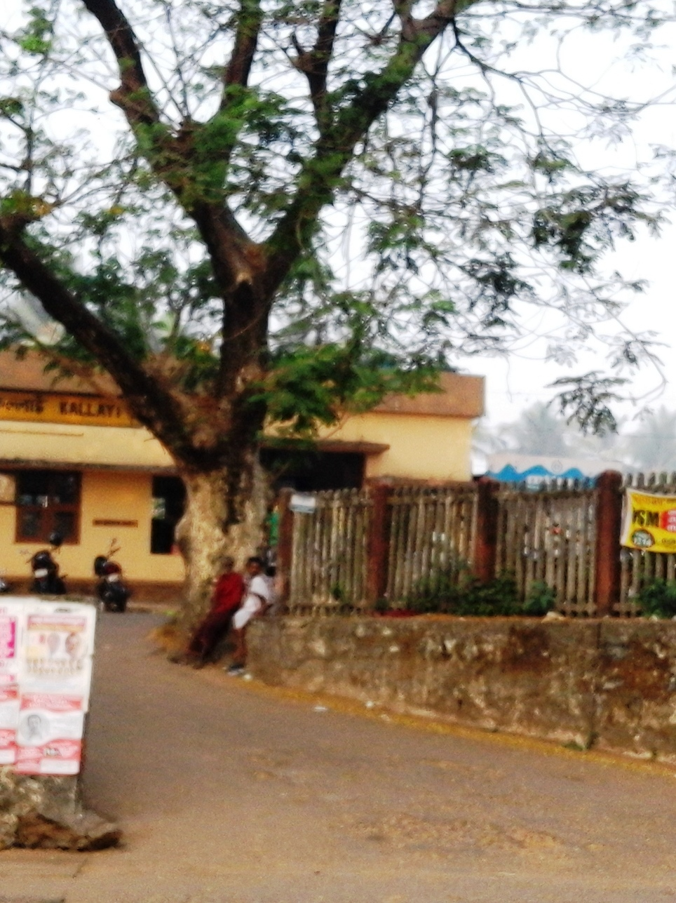 Kozhikode District, Kerala province, India.